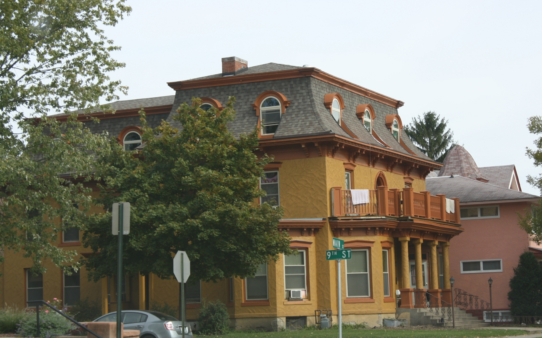 A house at 9th and Main St. located in the w:10th and Cass Streets Neighborhood Historic District in downtown La Crosse, Wisconsin. The district is listed on the National Register of Historic Places.